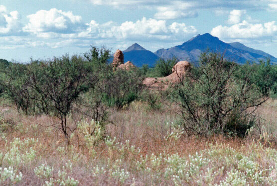 Ruins of the Mission Los Santos Ángeles de Guevavi — within Tumacácori National Historical Park in Santa Cruz County, southern Arizona. The adobe Franciscan Spanish mission was built in 1751. On the Juan Bautista de Anza National Historic Trail, beneath the backdrop of San Cayetano Mountain and the Sierra Santa Rita. This image and relevant data can be found at: and